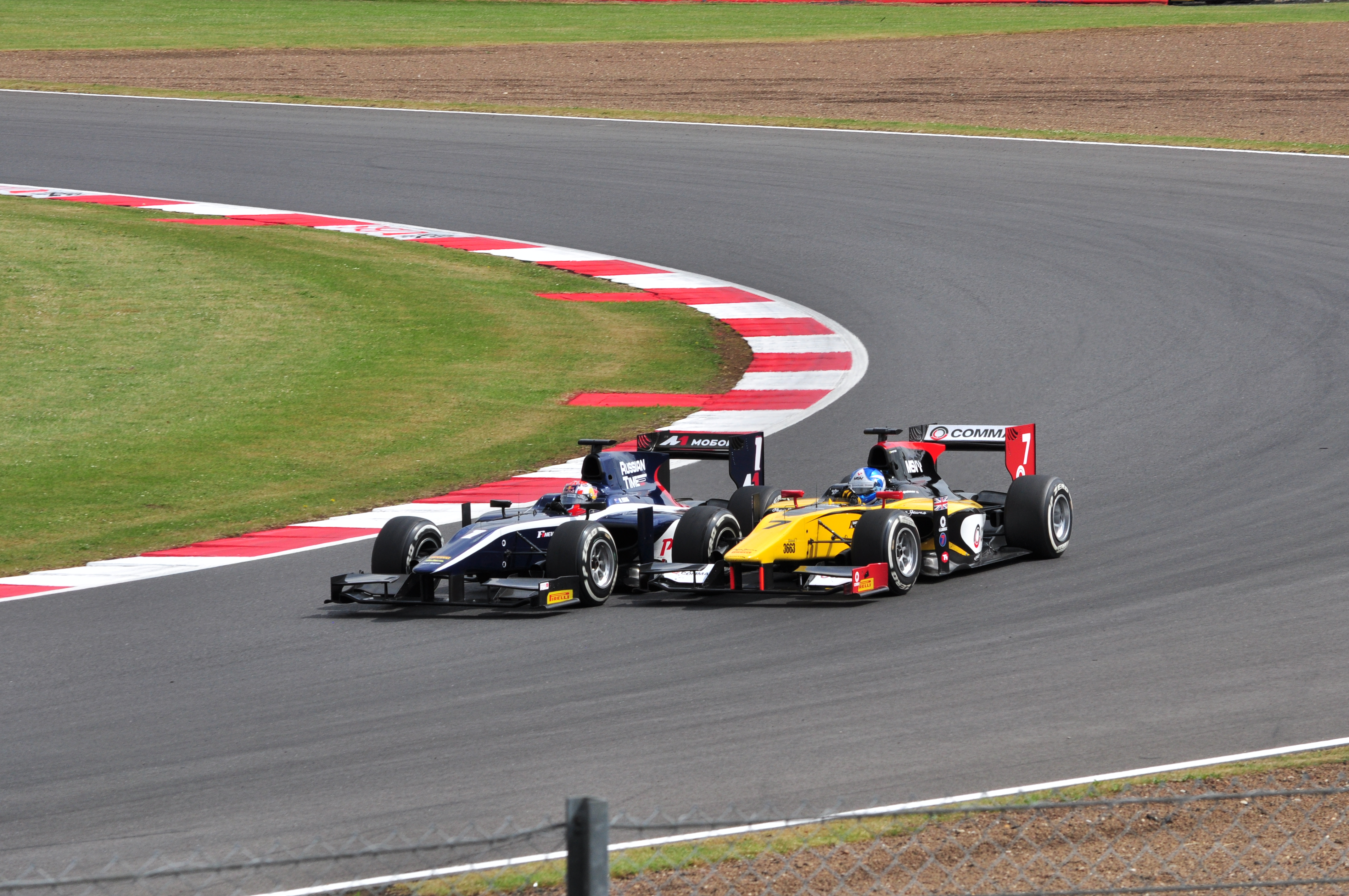 Mitch Evans (1) and Jolyon Palmer (7) getting as close as possible. Palmer was pushed over the edge of the track just after this. Round 5 of the 2014 GP2 Series, at Silverstone.